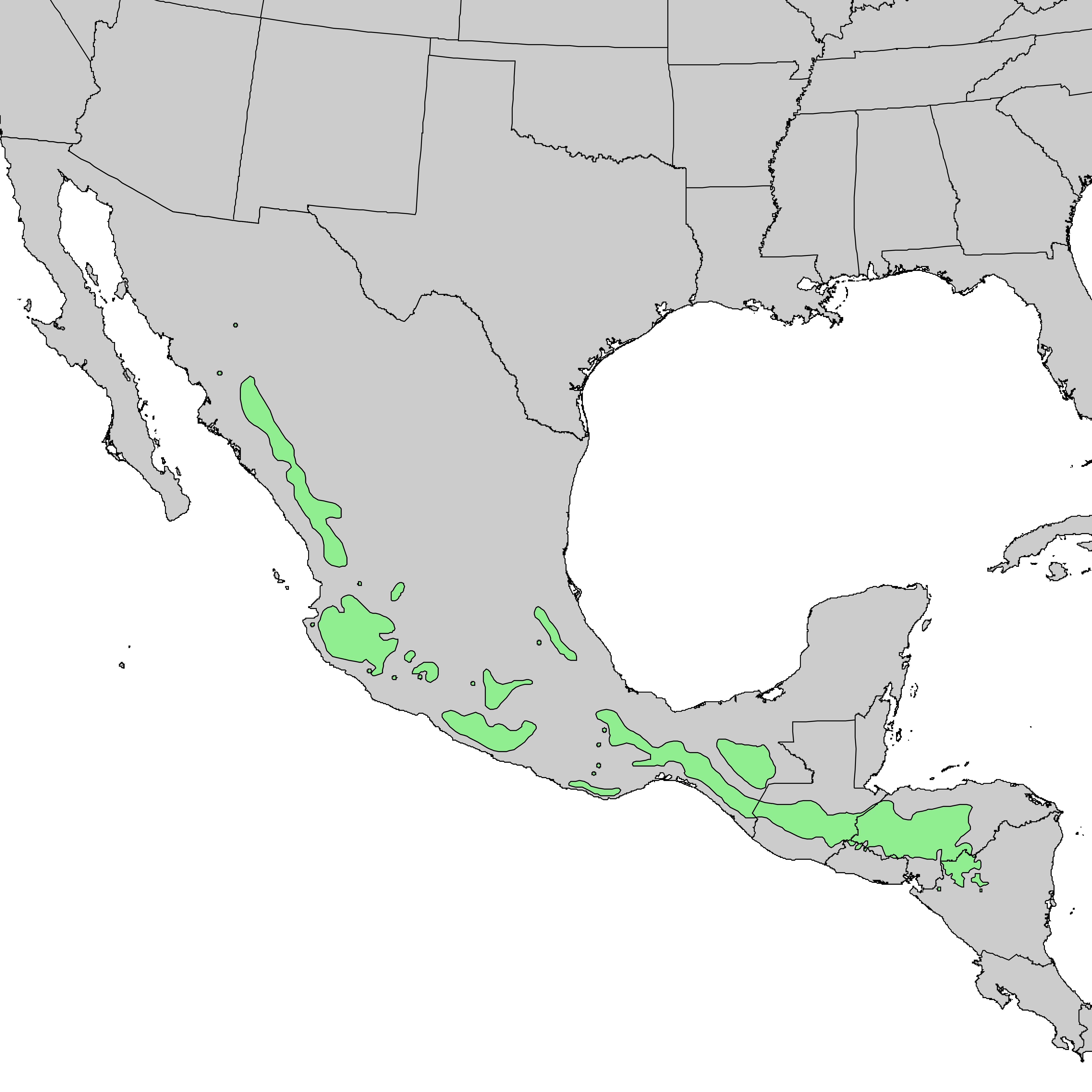 Natural distribution map for Pinus oocarpa